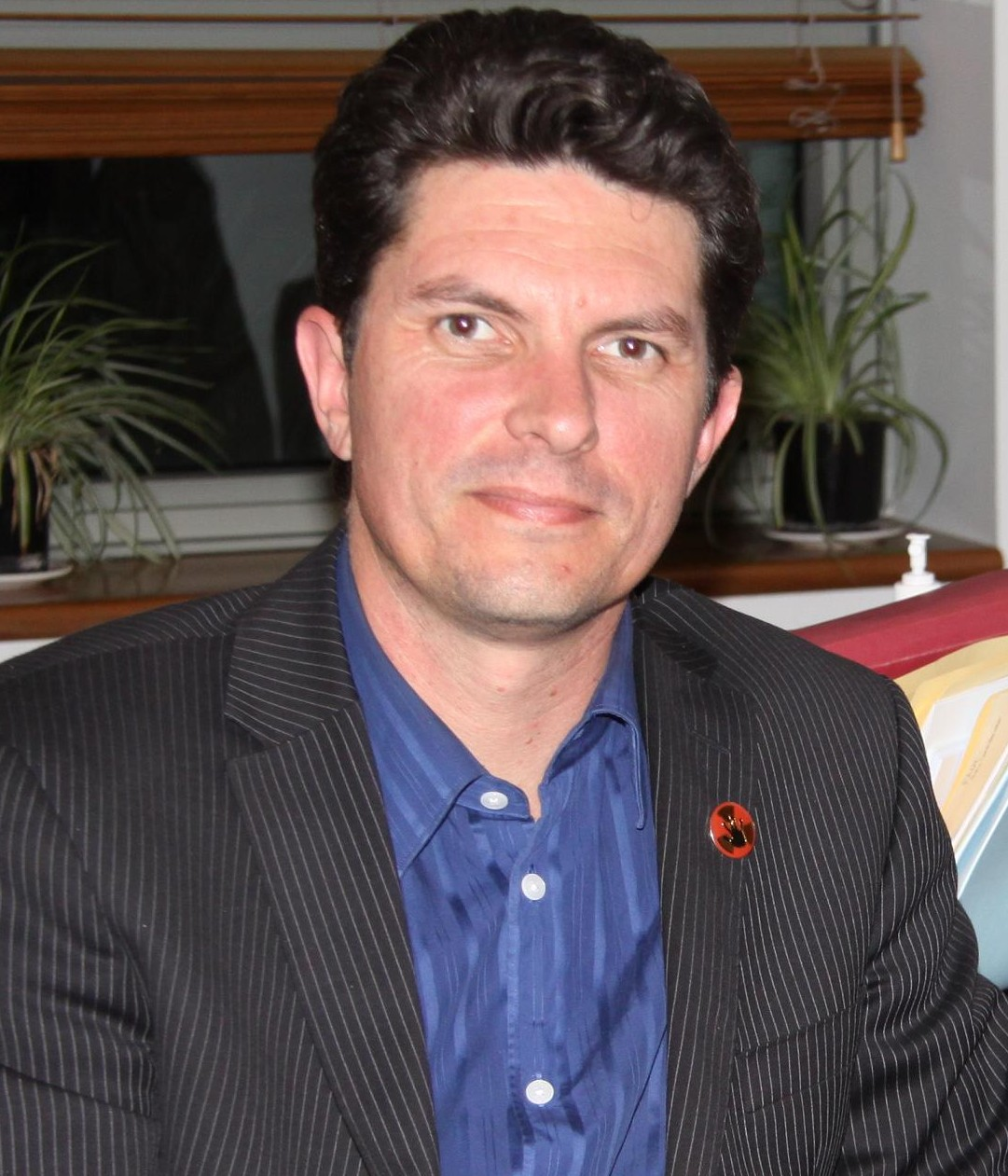 Afghan survivor and Soraj Ghulam Habib and Senator Scott Ludlam of the Green Party, May 2011